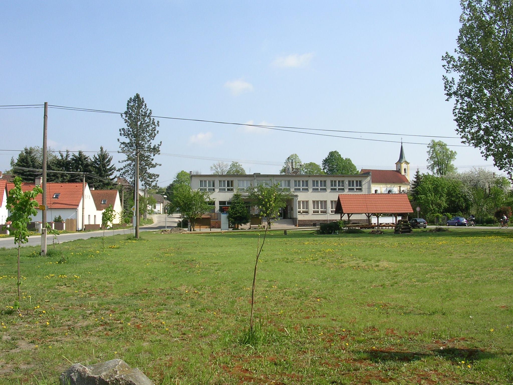 Stříbřec, South Bohemian Region, the Czech Republic.